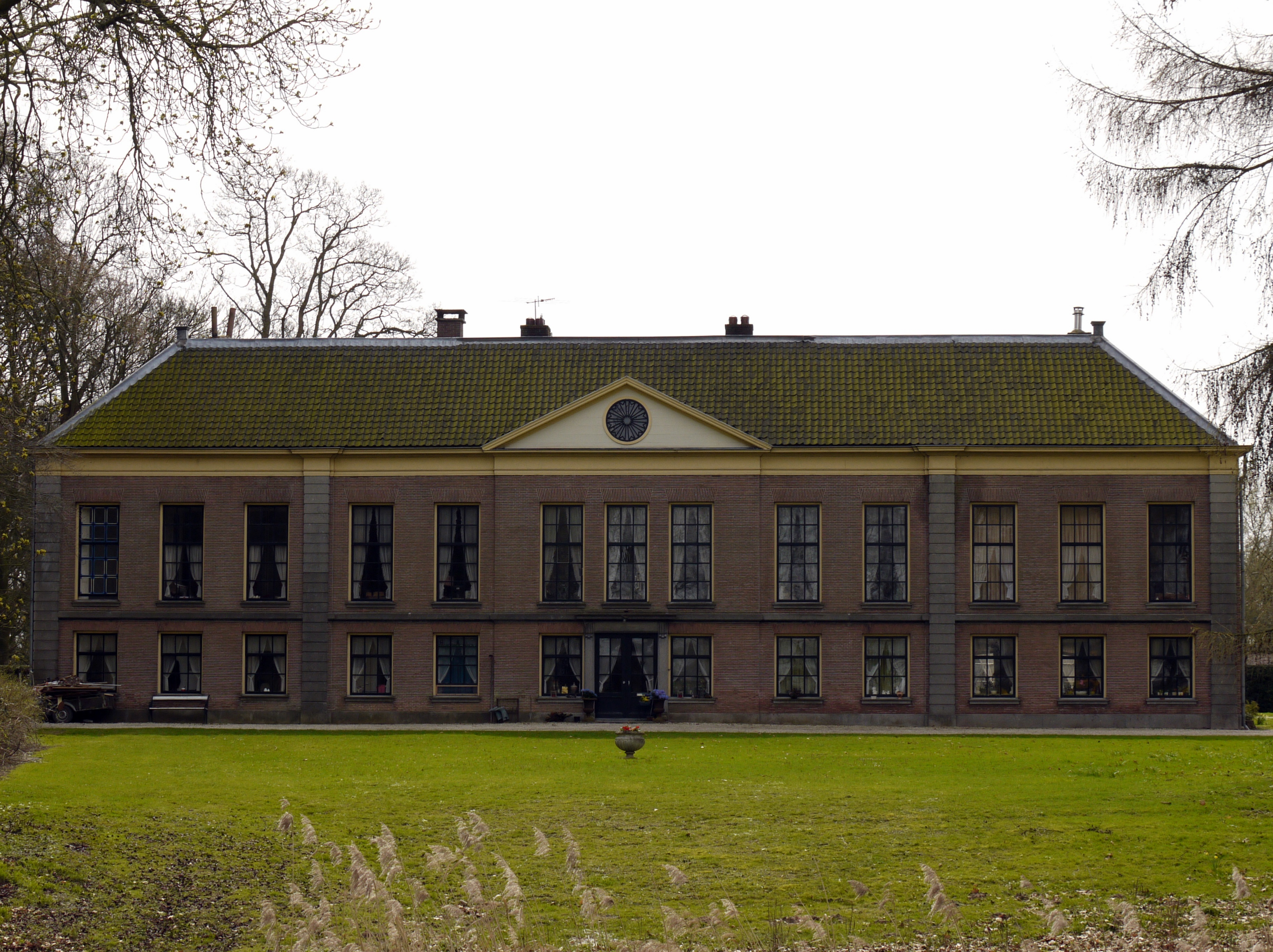 Country house at Mariënwaerdt estate in Geldermalsen. Its national-monument number is 16464.